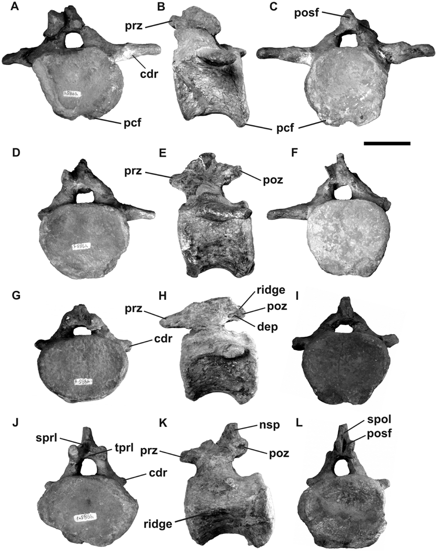 Lusotitan atalaiensis. Photographs of anterior caudal vertebrae: CdC in (A) anterior, (B) left lateral, and (C) posterior views; CdD in (D) anterior, (E) left lateral, and (F) posterior views; CdE in (G) anterior, (H) left lateral, and (I) posterior views; CdF in (J) anterior, (K) left lateral, and (L) posterior views. Abbreviations: cdr, caudal rib; dep, depression; nsp, neural spine; pcf, posterior chevron facet; posf, postspinal fossa; poz, postzygapophysis; prz, prezygapophysis; spol, spinopostzygapophyseal lamina; sprl, spinoprezygapophyseal lamina; tprl, intraprezygapophyseal lamina. Scale bar = 100 mm.